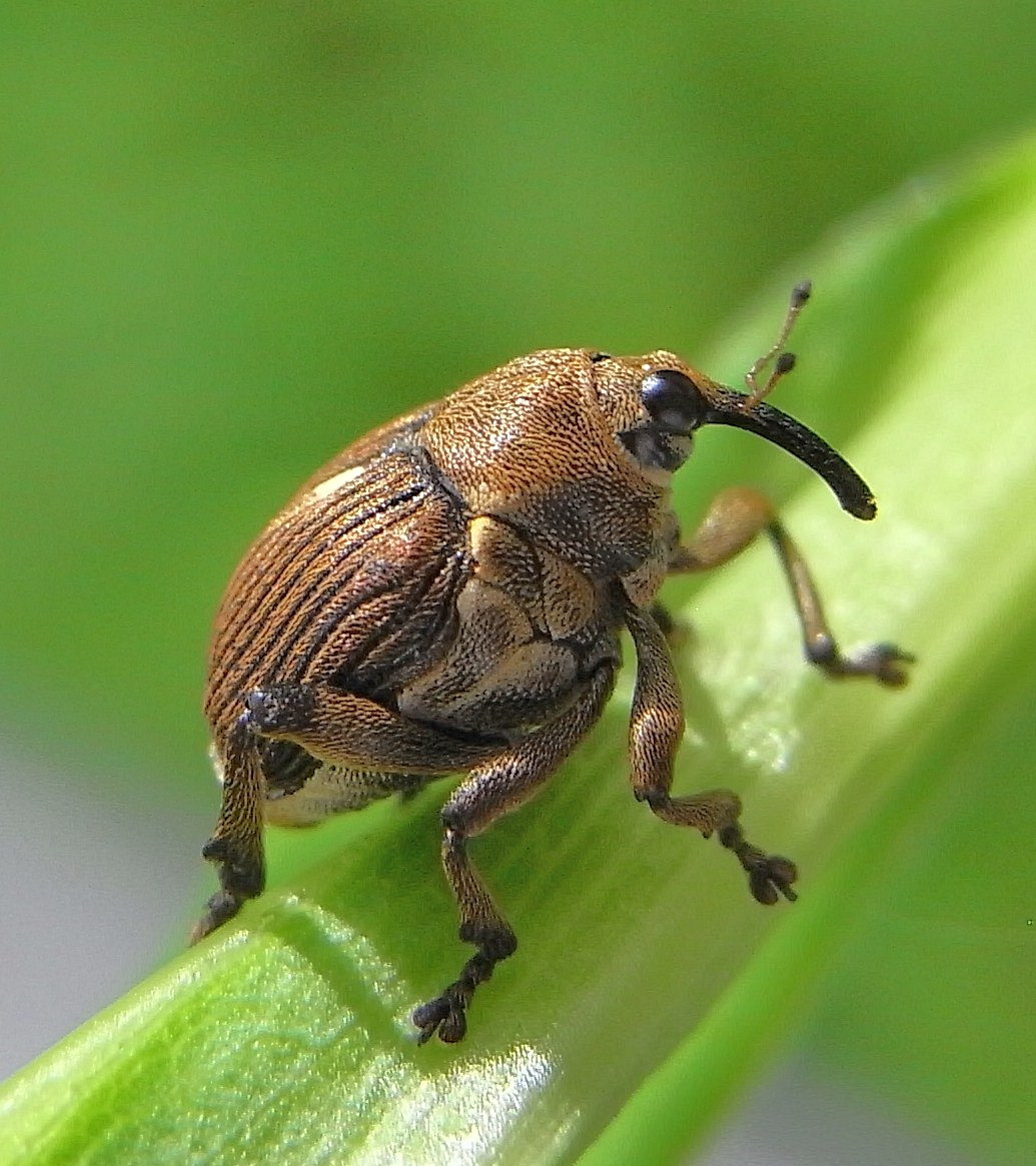 Mononychus punctumalbum var. salviae from Hungary near Hercegszanto at 2010-05-14Ricoh R8